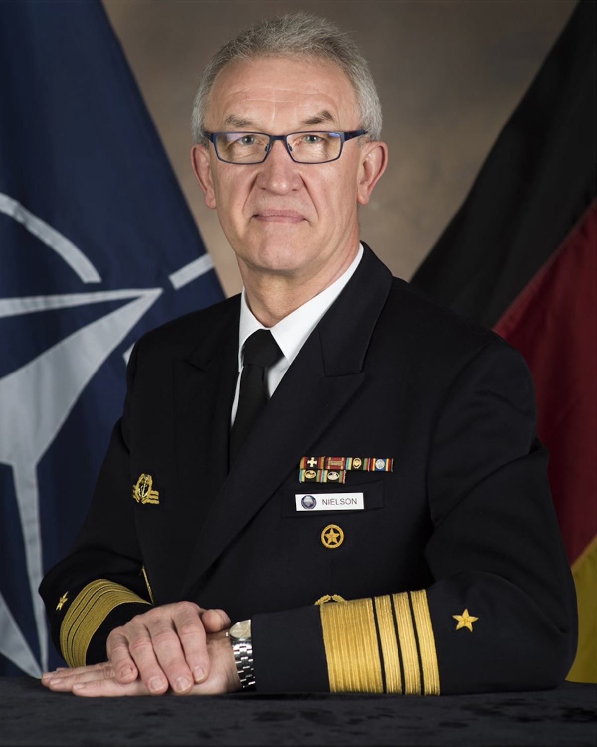 Admiral Manfred Nielson, German Navy, Deputy Supreme Allied Commander Transformation, NATO